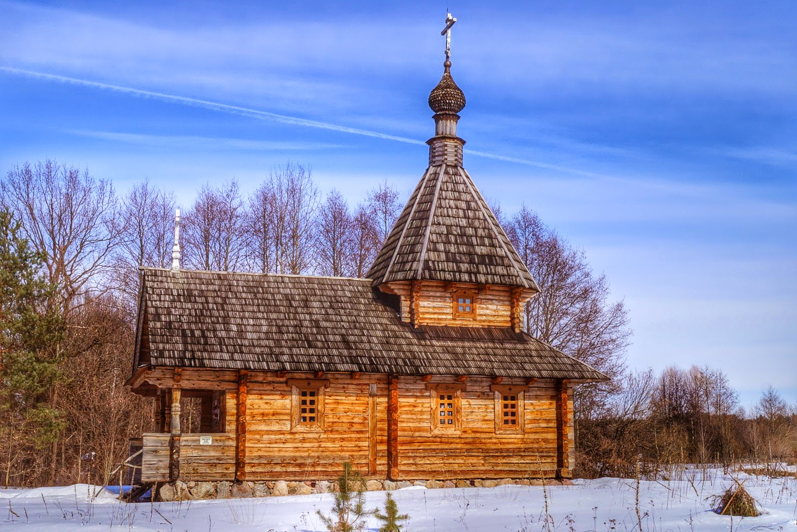 Boris and Gleb chapel in Zabroddzie